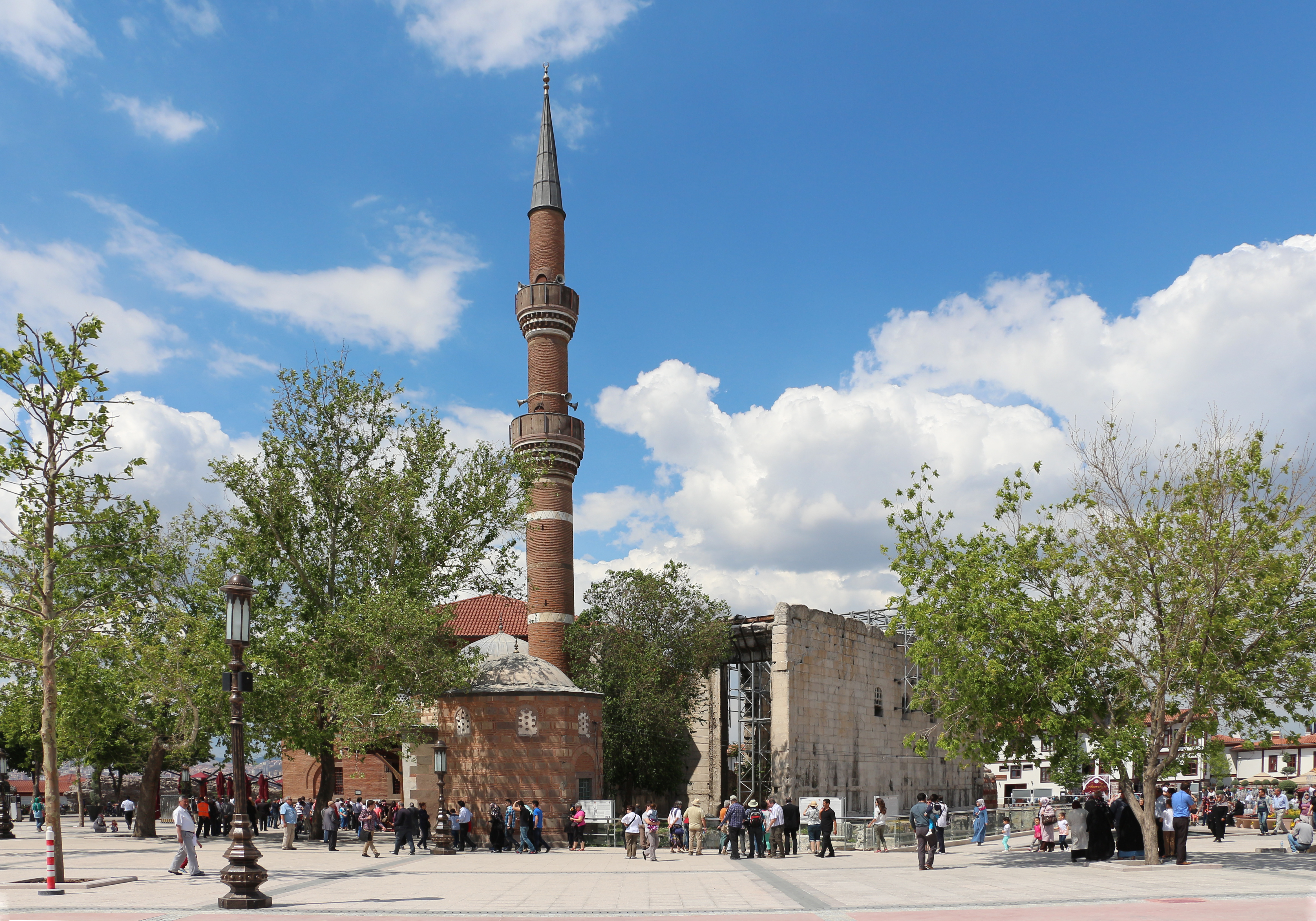 Haci Bayram Mosque and Temple of Augustus and Roma, Ankara